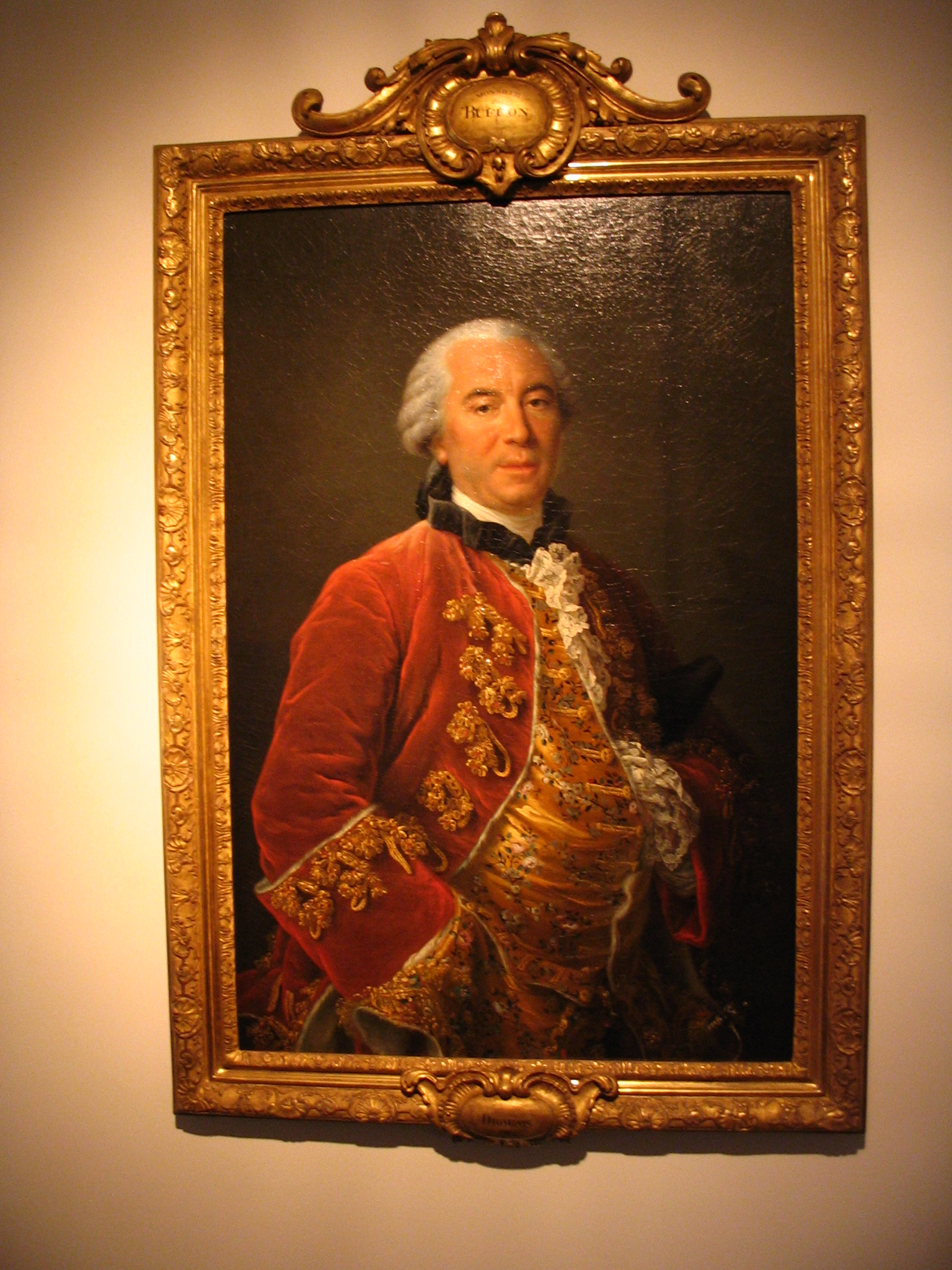 Portrait of Buffon